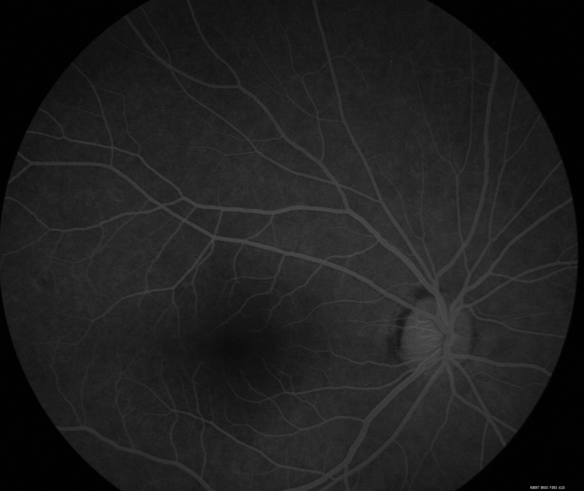 Fluorescein retinography of a 33 years old patient (right eye), showing the optical disc at the inferior right quadrant and the macula lutea at the inferior left quadrant (darker spot). No anomalies detected.